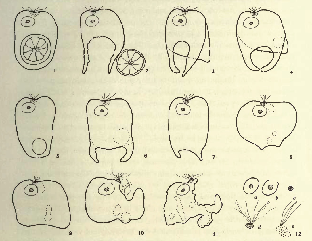 Collodictyon meets Pandorina and loses out. Escape of Pandorina and subsequent dissolution of Collodictyon due to drying. Diagrammatic. × 750. 1. Pandorina within food vacuole. 2. Pandorina swimming away; ruptured surface of Collodictyon. 3, 4. Apparent healing of torn surface. 5. Fusion of ends of protoplasmic processes, enclosing water vacuole; of frequent occurrence. 6-8. Resorption of protoplasmic processes. 8, 9. Flattening of body; formation of pathological vacuoles indicative of dissolution. 10. Bursting of vacuole at anterior region of sulcus. 11. Further dissolution, rupturing posteriad along the sulcus. 12. Nucleus and blepharoplast freed by dissolution, a. Nucleus; nuclear membrane persisted for two minutes. b. Rupture of nuclear membrane, c. Karyosome; persisted for thirty minutes; finally broke up into small granules, d. Blepharoplast; basal granules surrounded by archoplasm, flagella still moving, e. Rupturing of archoplasmic mass; flagella cease beating.